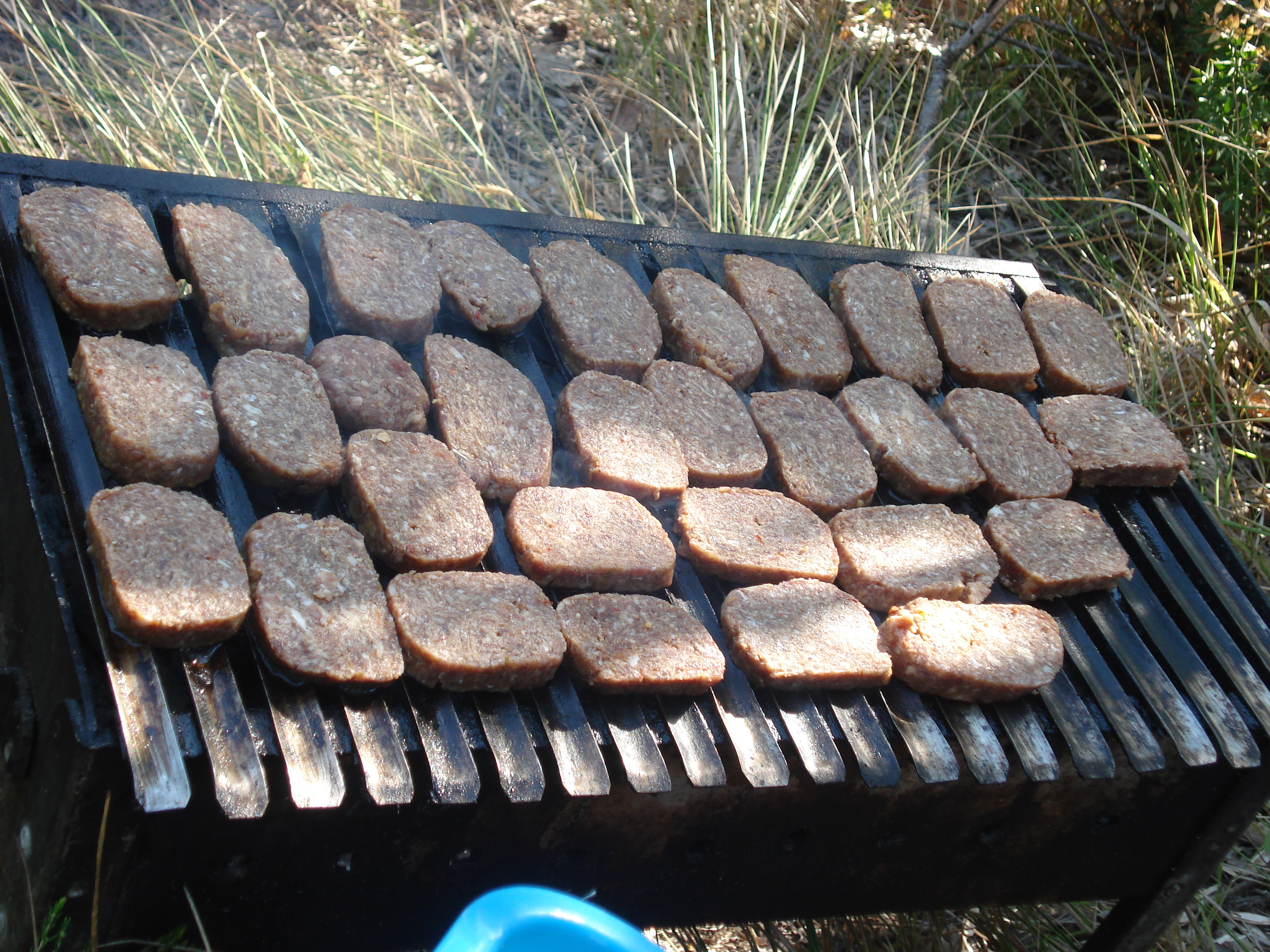 Köfte is a kind of meat meal from Turkish cuisine. Meatballs that are being grilled.